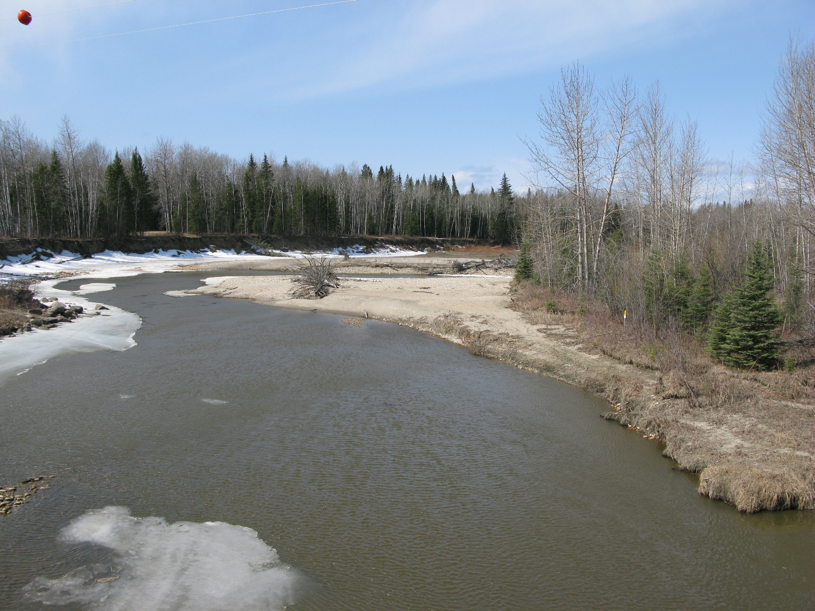 Wheateater